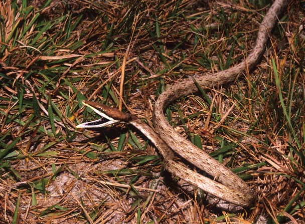 Oxybelis aeneus in Lençóis Maranhenses National Park, Maranhão State, Northeastern Brazil. Photo by J. P. Miranda.